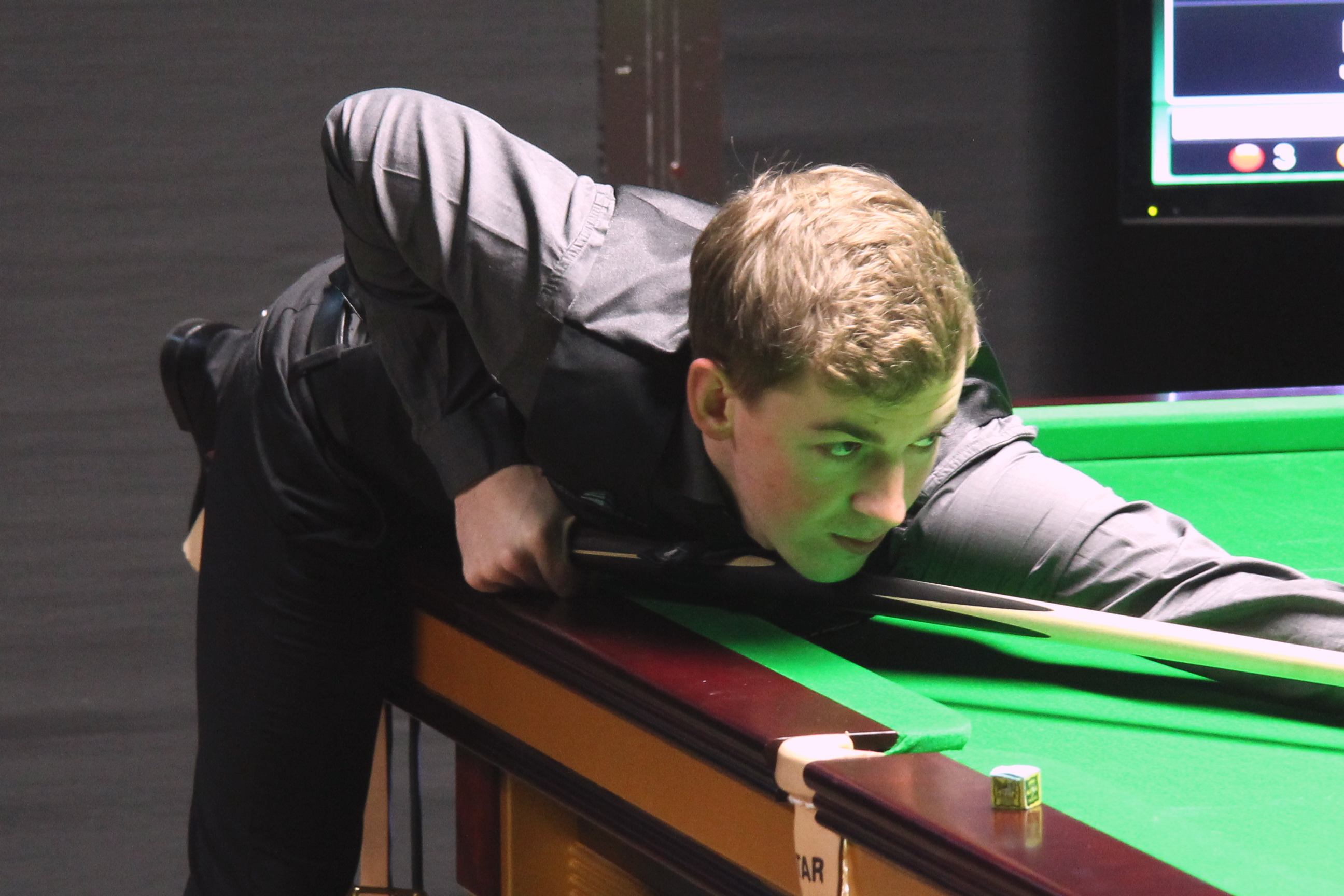 James Cahill beim Paul Hunter Classic 2016